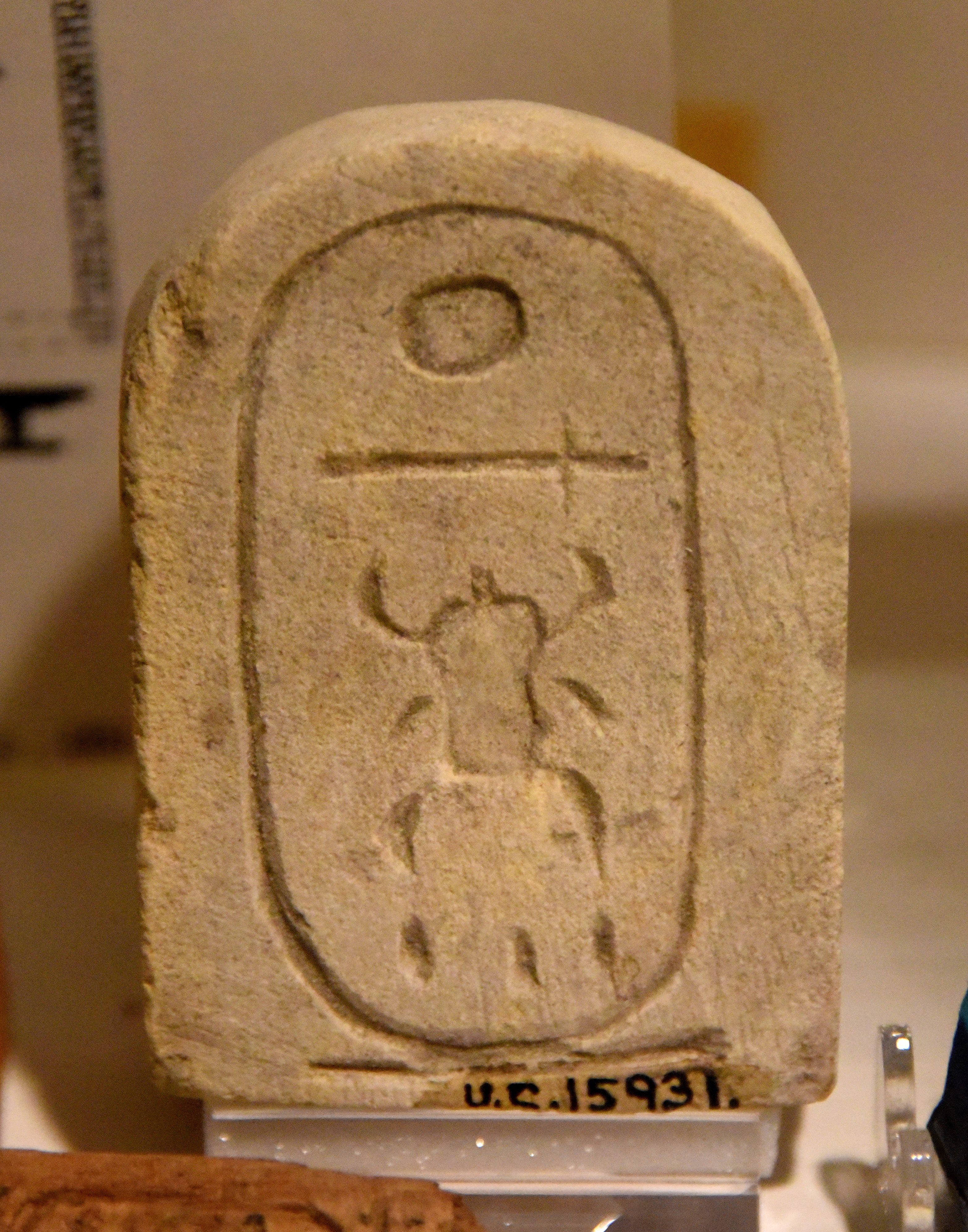 Foundation tablet showing the prenomen cartouche of the throne-name of Amenhotep II. 18th Dynasty. From Temple of Amenhotep II at Kurna (Qurnah, Qurna, Gourna, Gurna), Egypt. The Petrie Museum of Egyptian Archaeology, London. With thanks to the Petrie Museum of Egyptian Archaeology, UCL.